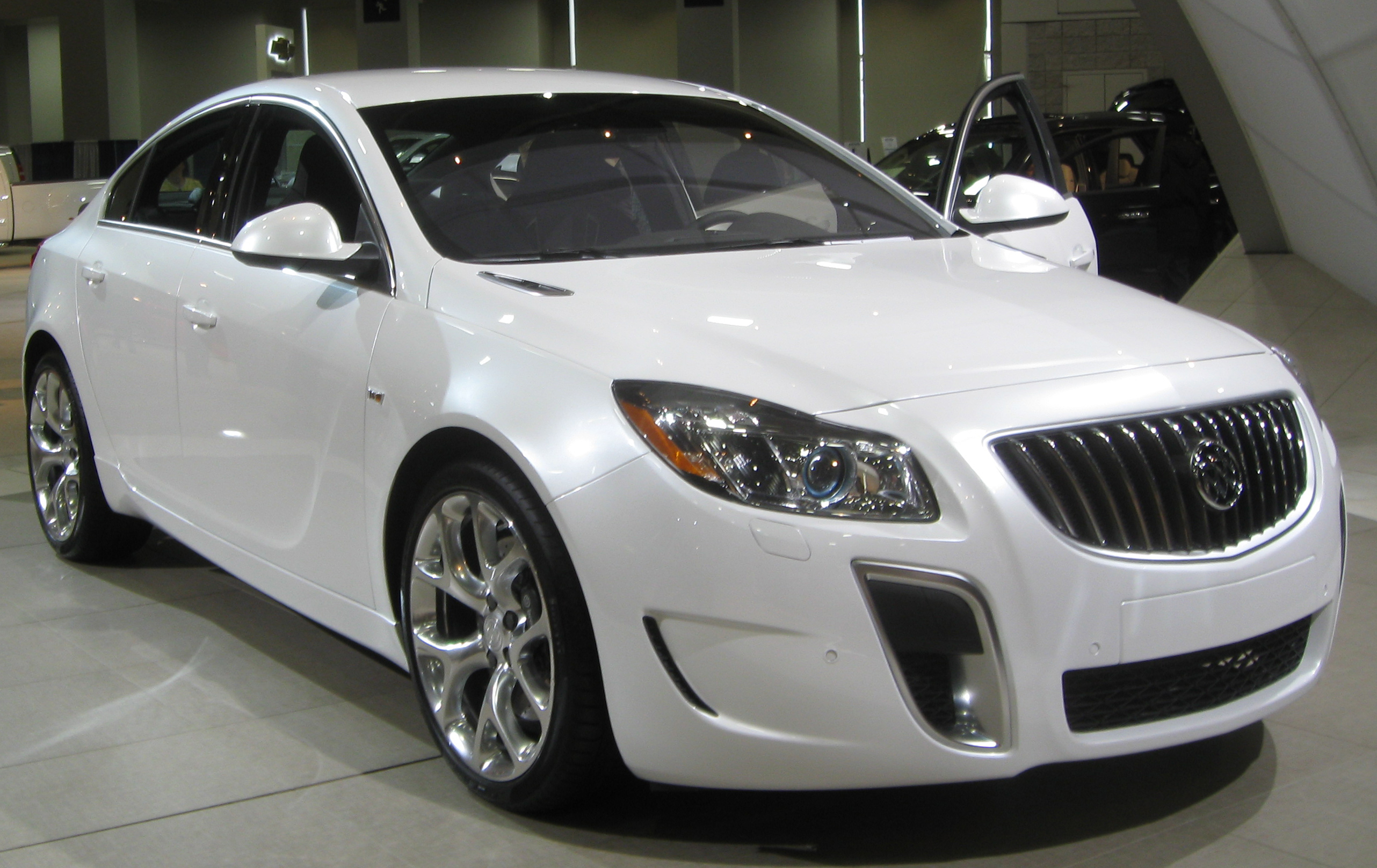 2011 Buick Regal GS photographed at the 2010 Washington Auto Show.